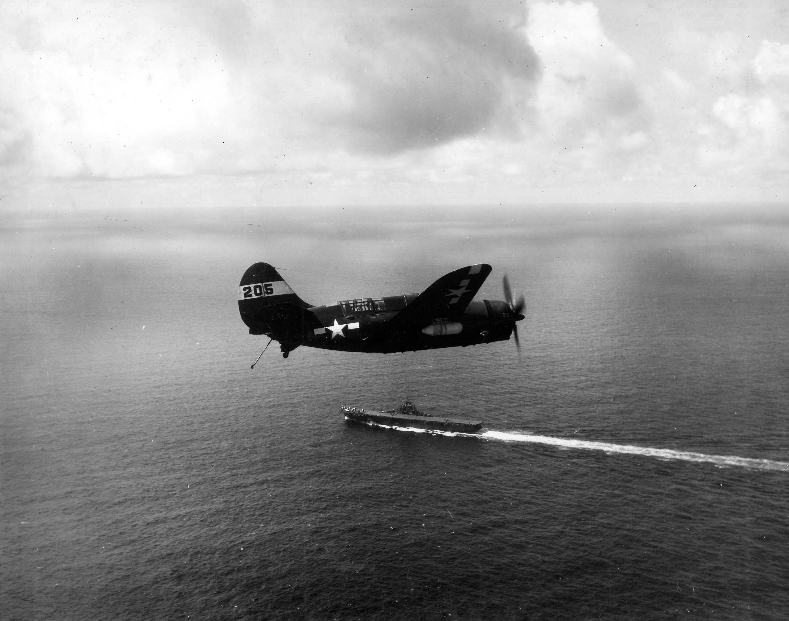 A U.S. Navy Curtiss SB2C-4 Helldiver of bombing squadron VB-86 in the landing pattern over the aircraft carrier USS Wasp (CV-18), in 1945.